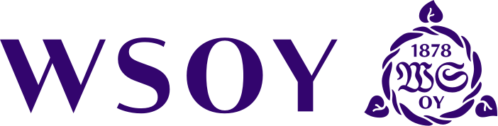 Logo of WSOY (Werner Söderström Osakeyhtiö